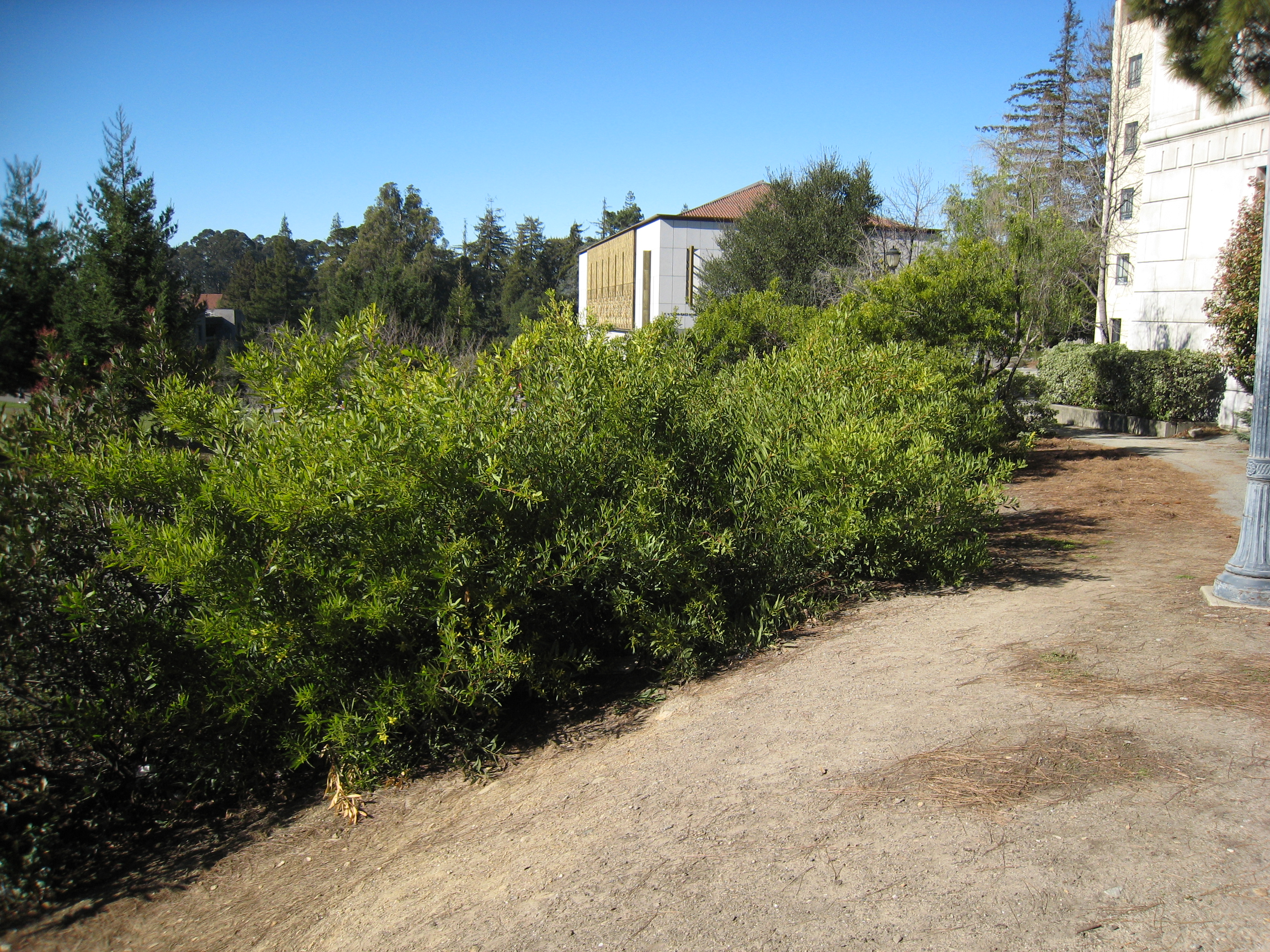 Acacia longifolia (Sydney Golden Wattle)